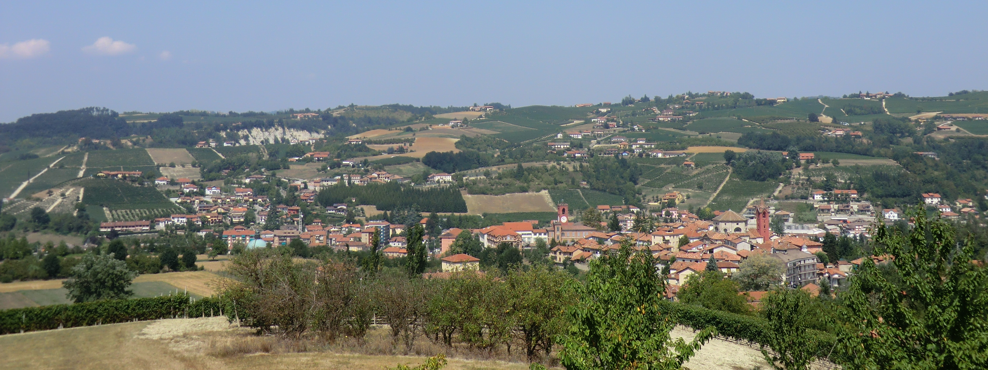 Dogliani